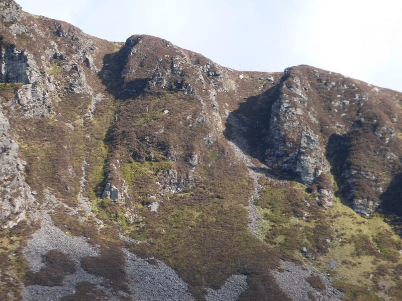 Close up photograph of the gullies of Tomies Chimneys which lead to Tomies North Top (or Tomies Rock), and on to Tomies Mountain and Purple Mountain